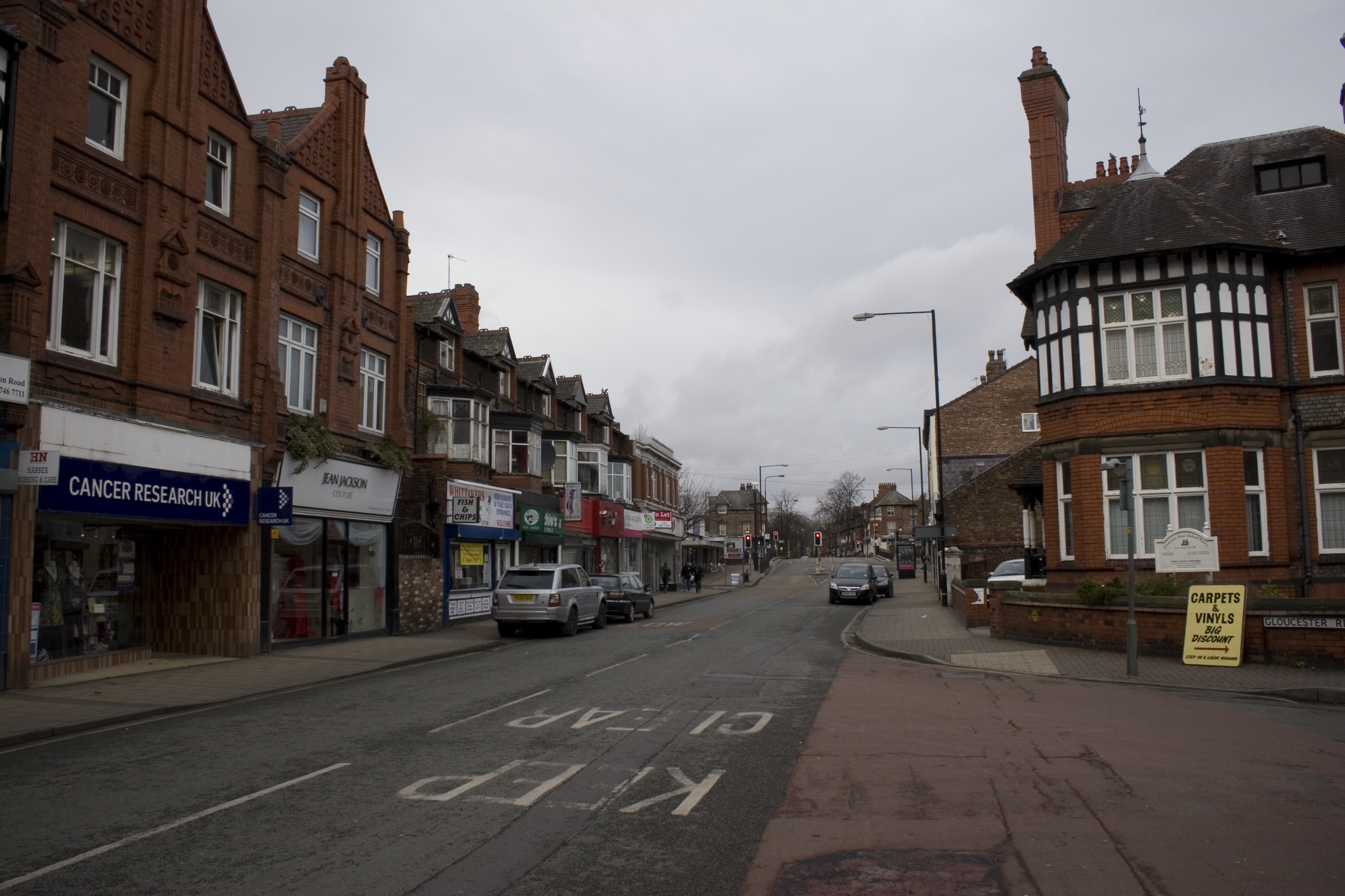 Station Road in Urmston, Greater Manchester, looking north.